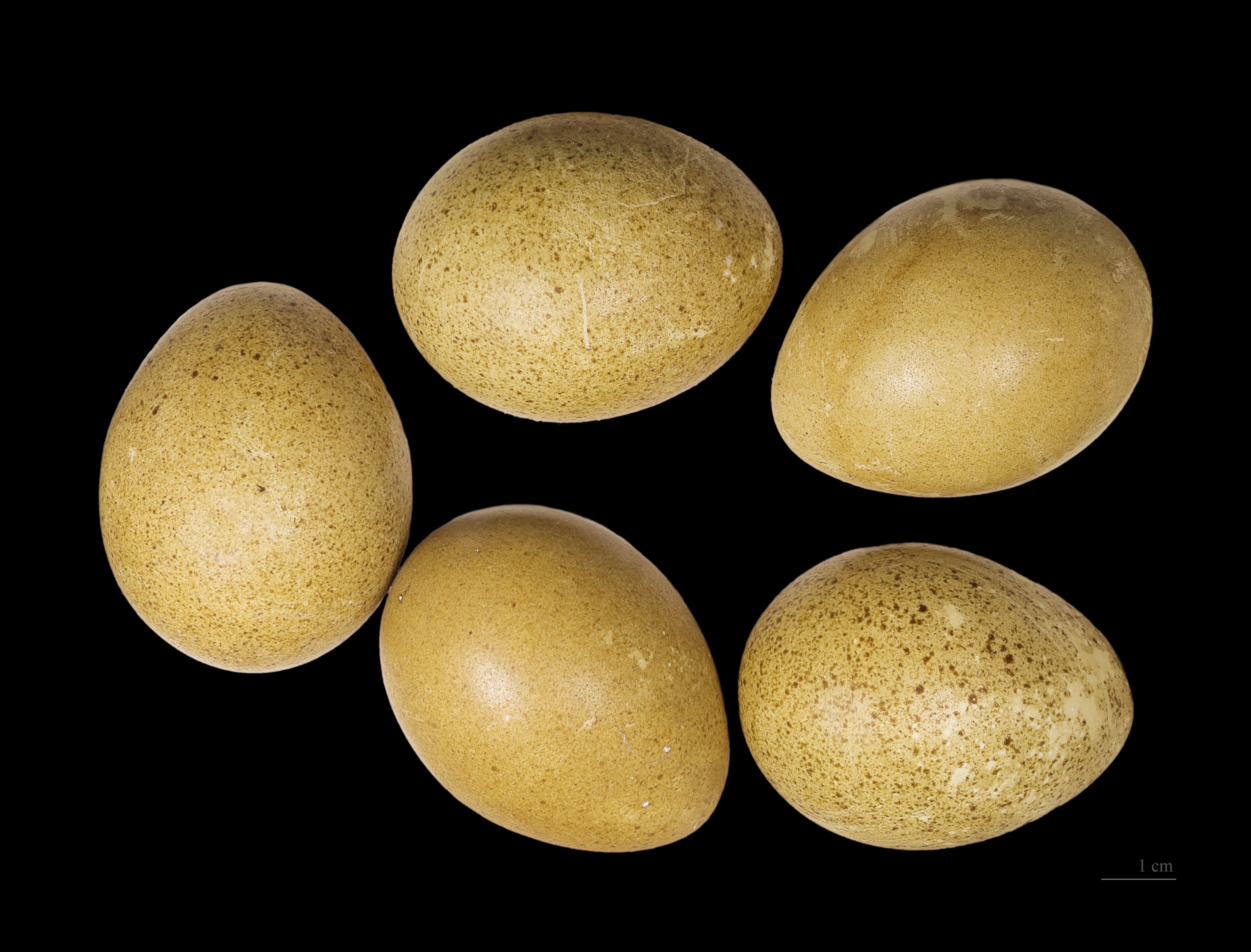 Eggs of the Western Capercaillie. Former Collection of Jacques Perrin de Brichambaut; Collector René de Naurois. Locality: Kitkoijarui Sweden